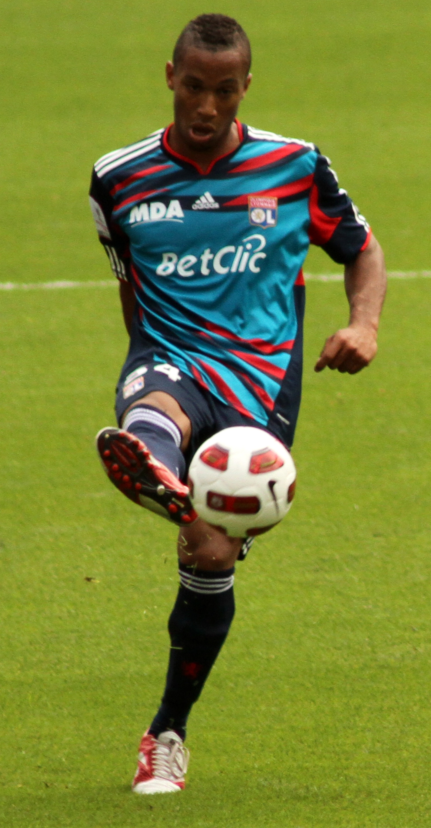 1Harry Novillo, playing during Emirates cup 2010.